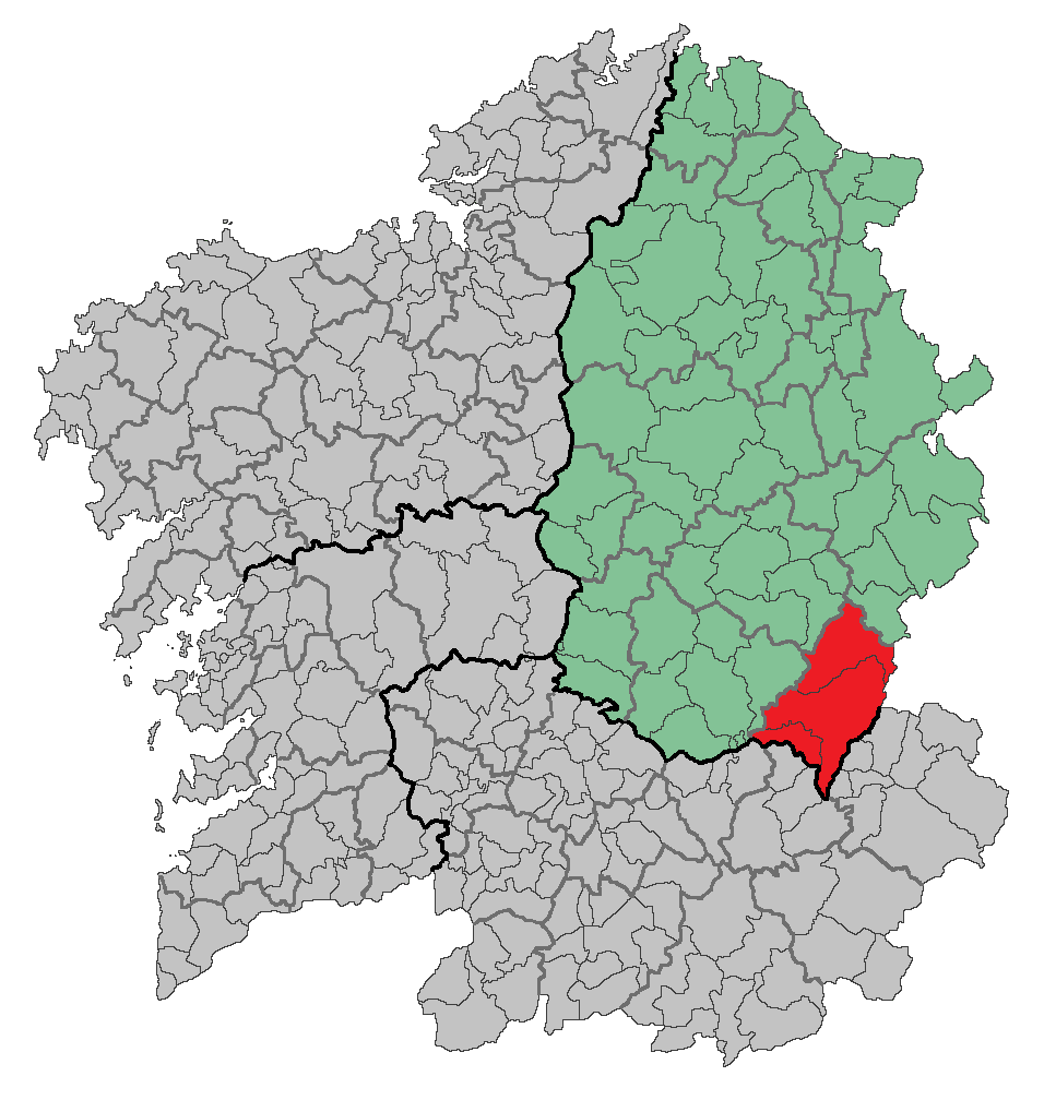 Region of Galicia (Spain)Based in: Image:Location of Betanzos.png Source: Designed by Leoplus. Original picture, designed by Caiser over a work made by Alyssalover.